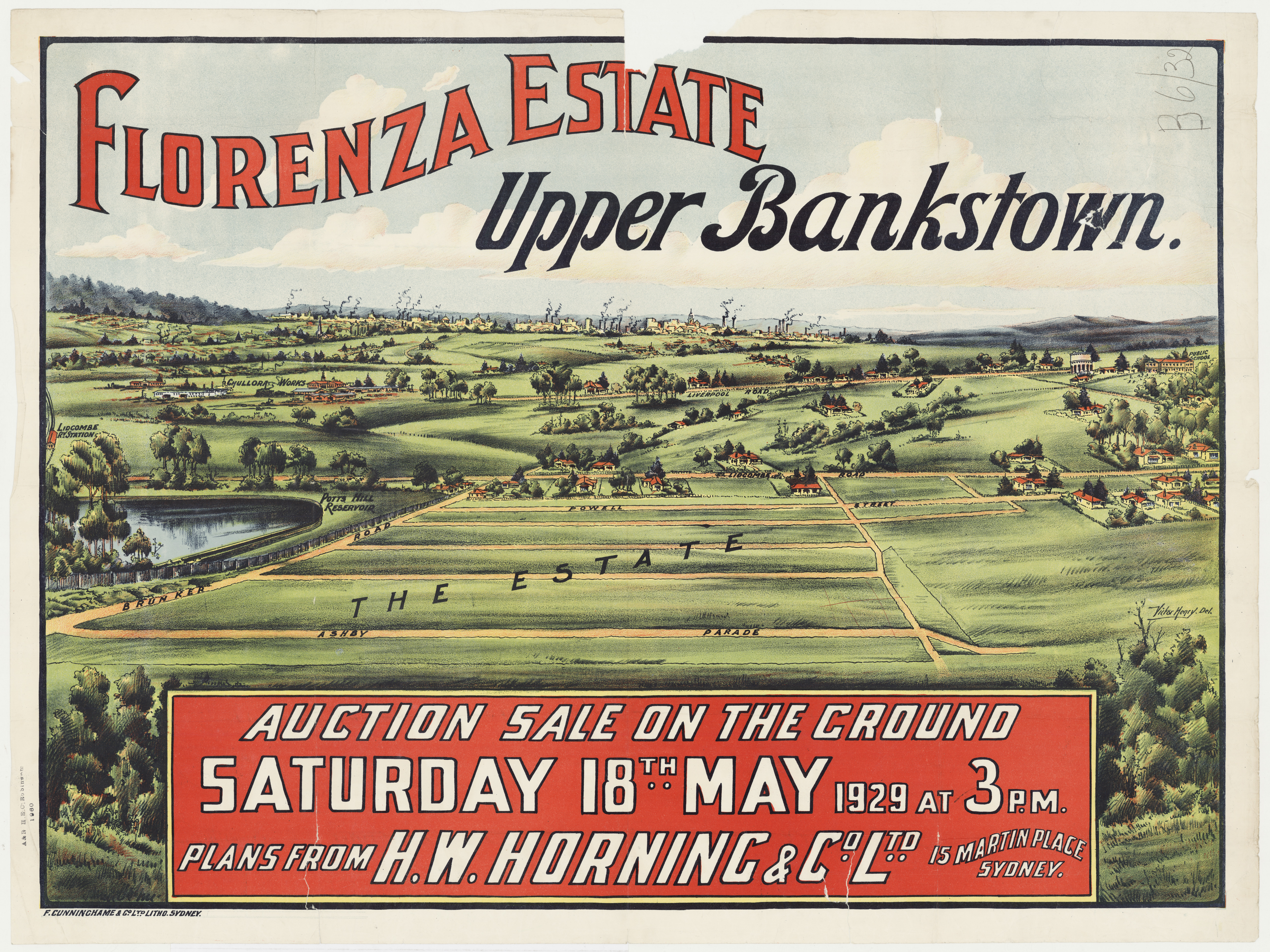 Florenza Estate, Upper Bankstown, 1929, subdivision plan, H. W. Horning, State Library of New South Wales Z/SP/B6/32